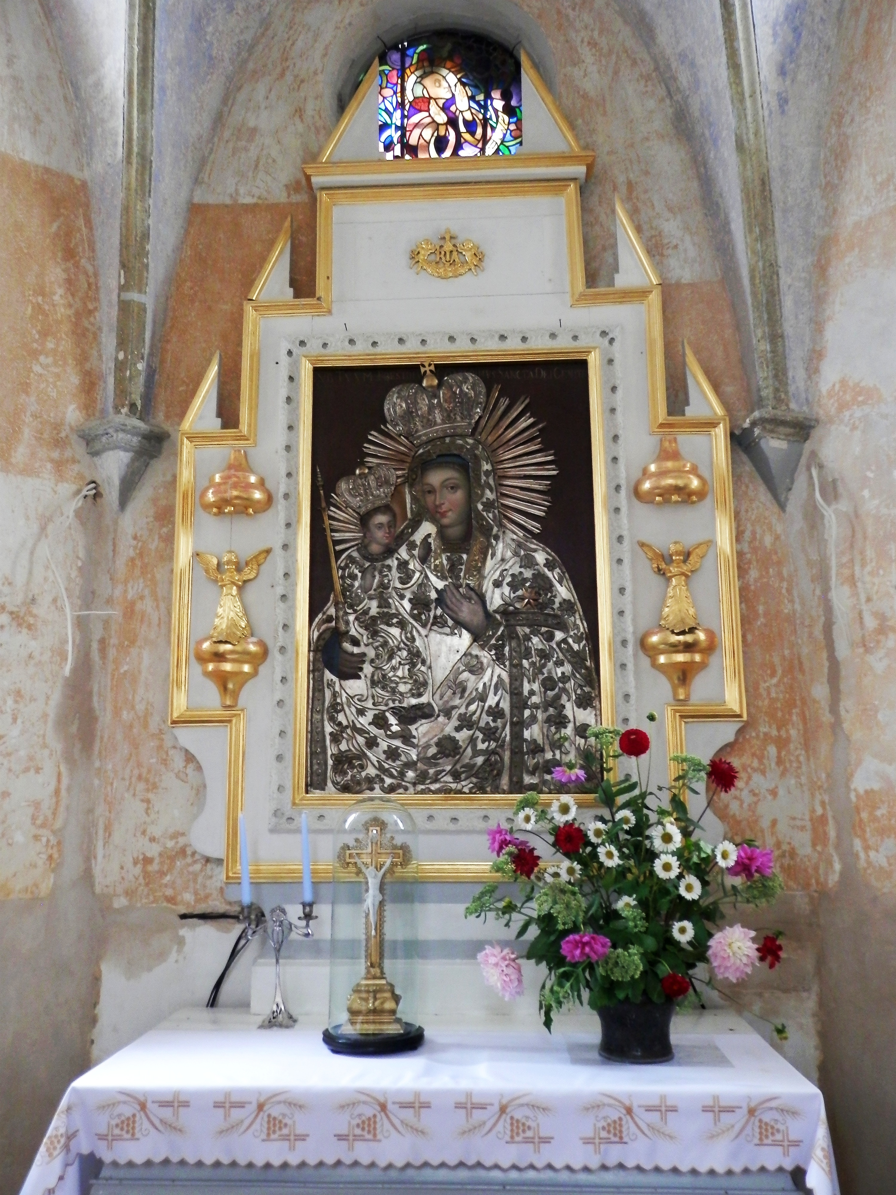 Transfiguration Roman Catholic Church in Navahrudak (XVIII century)